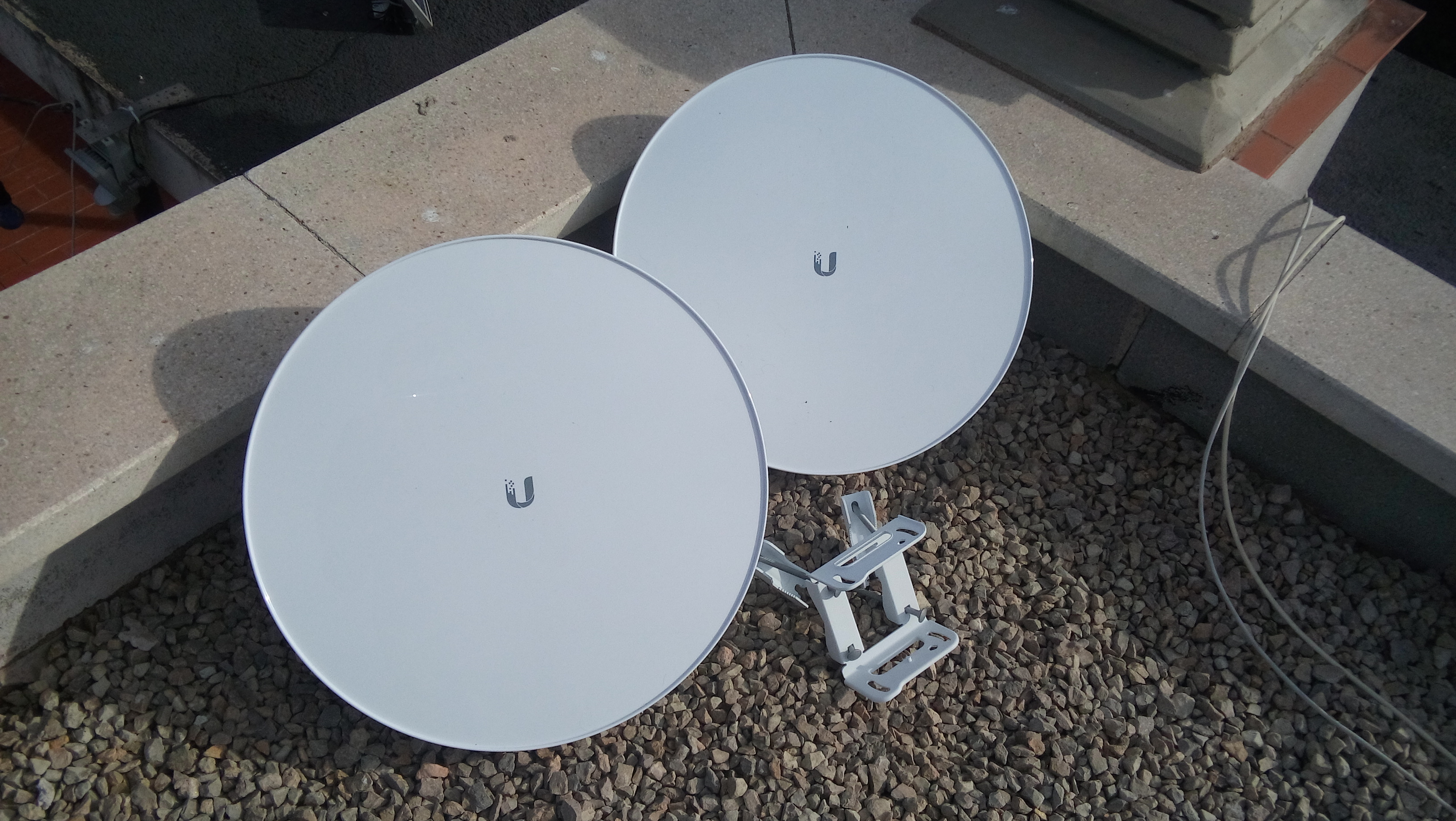 Installation of a "supernode" of 's network in the neighbourhood of Sant Pere i Sant Pau in Tarragona.